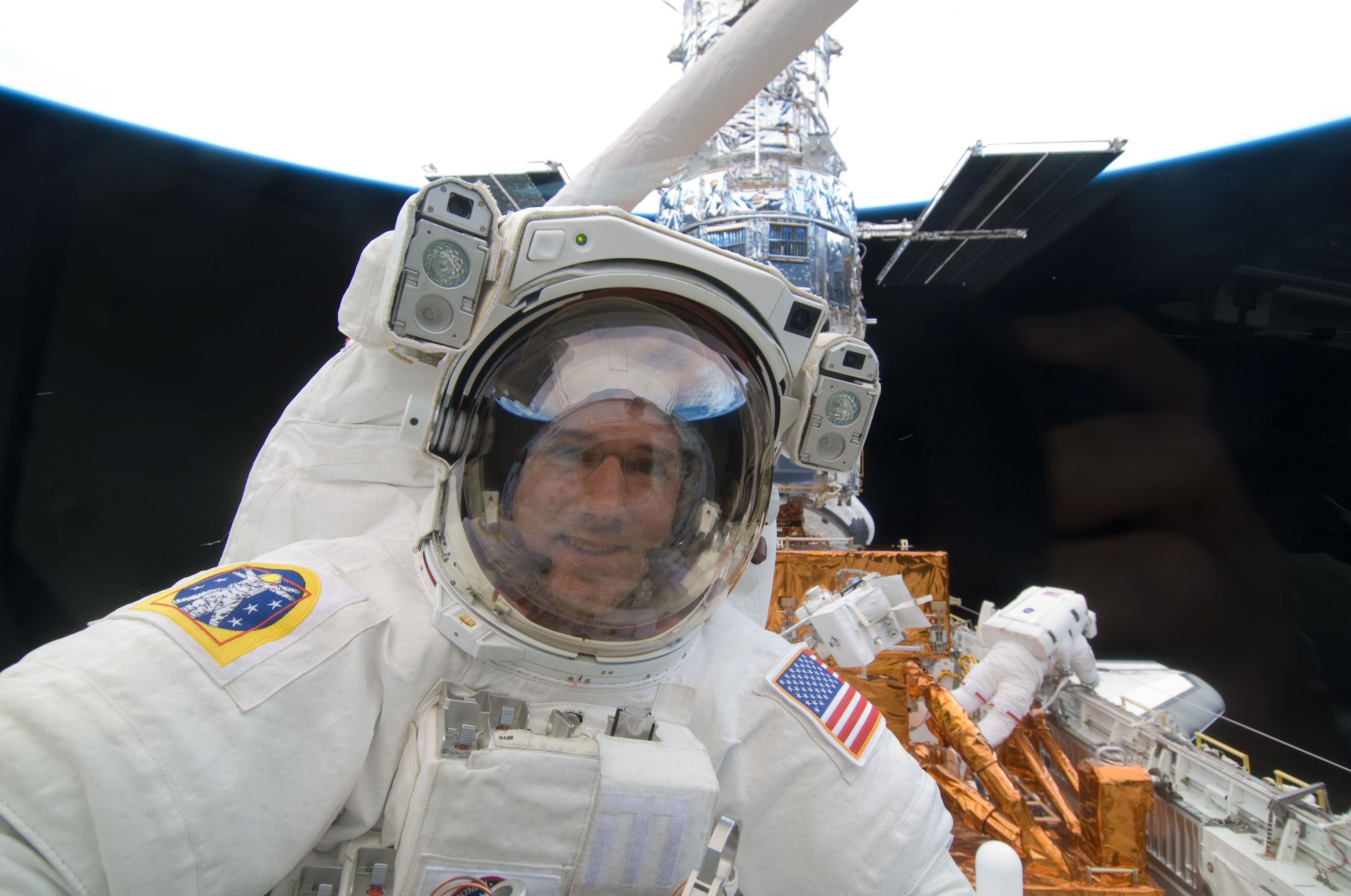 Astronaut Michael Good, STS-125 mission specialist, peers through a window toward Atlantis' crew cabin interior, where his shirt-sleeved support team members busy themselves to aid the flight's second of five sessions of extravehicular activity to perform work on the Hubble Space Telescope. Astronaut Mike Massimino can be seen in the background at work on the port side of the shuttle's cargo bay.